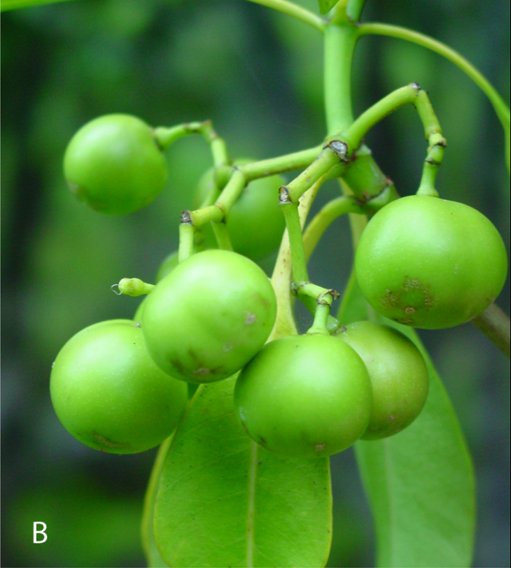 Rauvolfia nukuhivensis, infructescence with syncarpous green fruits (Maauu, Nuku Hiva, April 2004, Butaud 418)